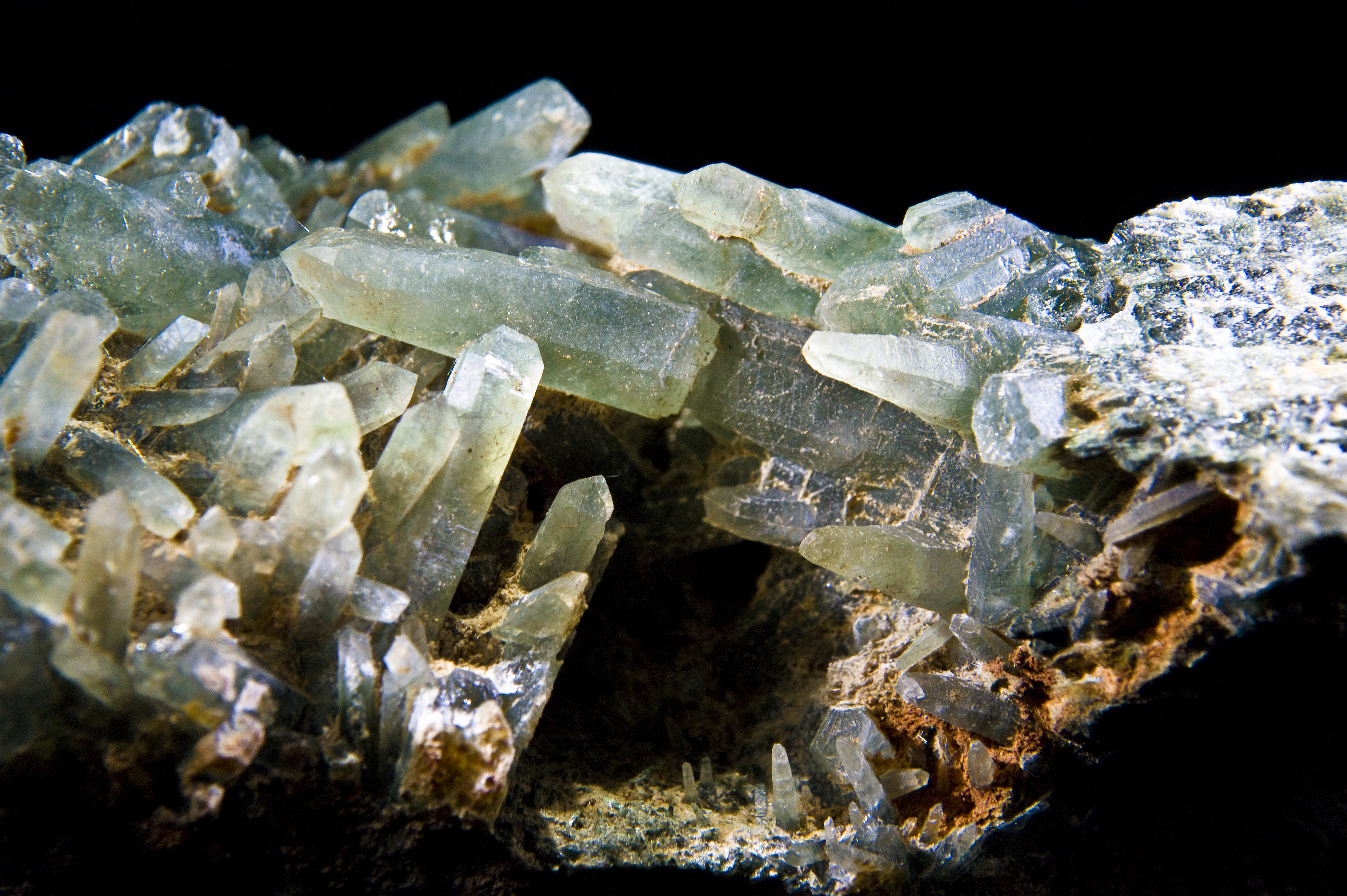 Quartz Prase Locality : Torre di Rio - Santa Filomena area (Monte della Torre), Rio Marina, Elba Island, Livorno Province, Tuscany, Italy Size: View 4cm